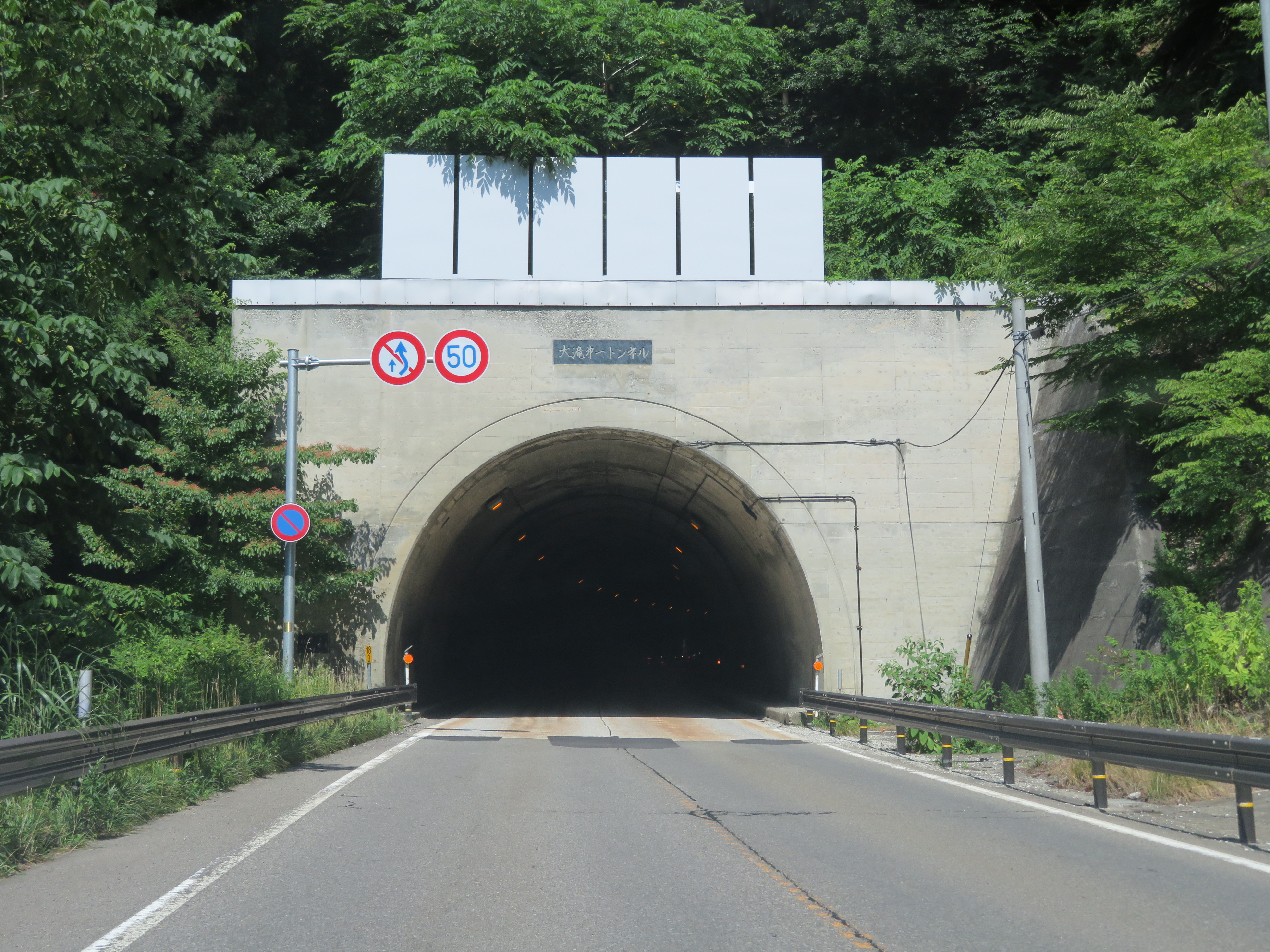 Route13 Otaki Daiichi Tunnel Canon PowerShot SX720 HS